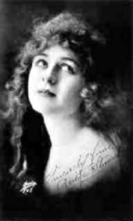 1917 photograph of American silent film actress Anita Stewart. Copyright expired. Taken from Silent Ladies & Gents